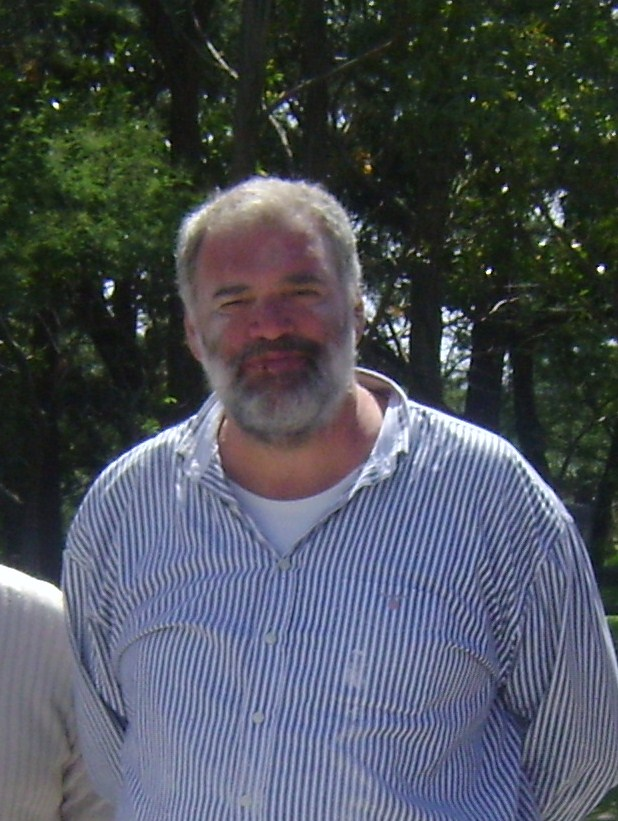 A photo of Pablo Atchugarry at Manantiales (Uruguay).